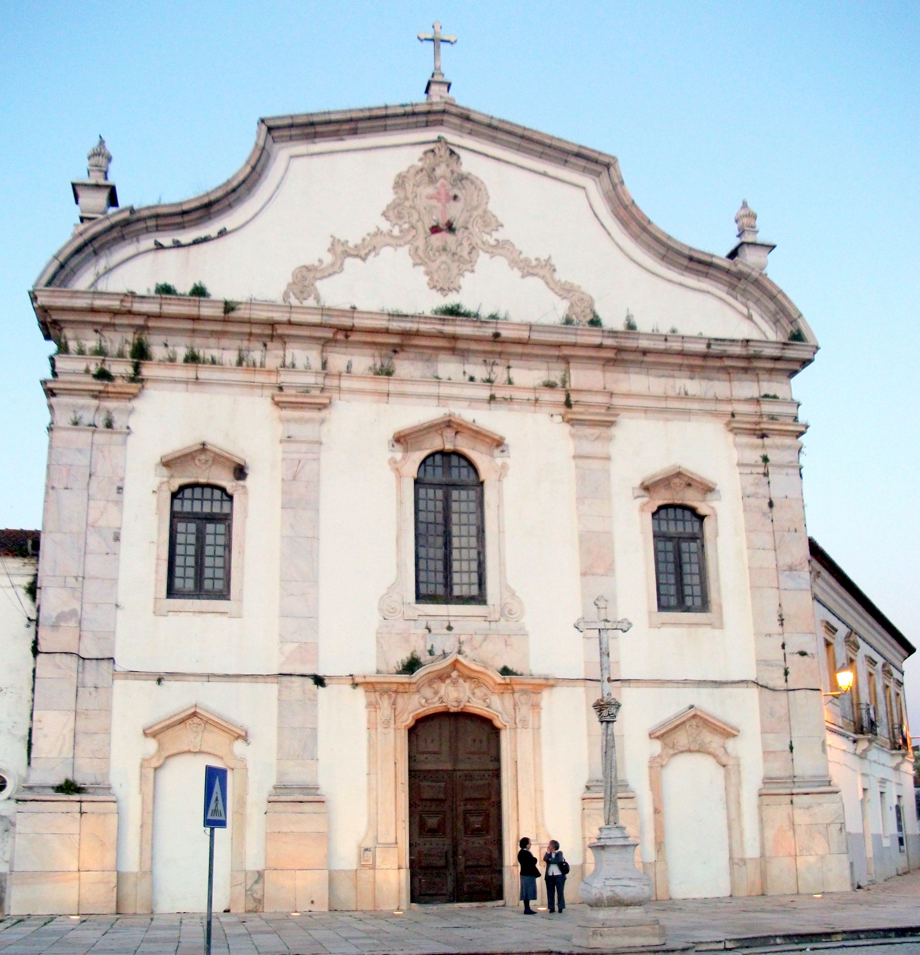 Abbey and church of S. Francisco, Estremoz, Évora, Portugal